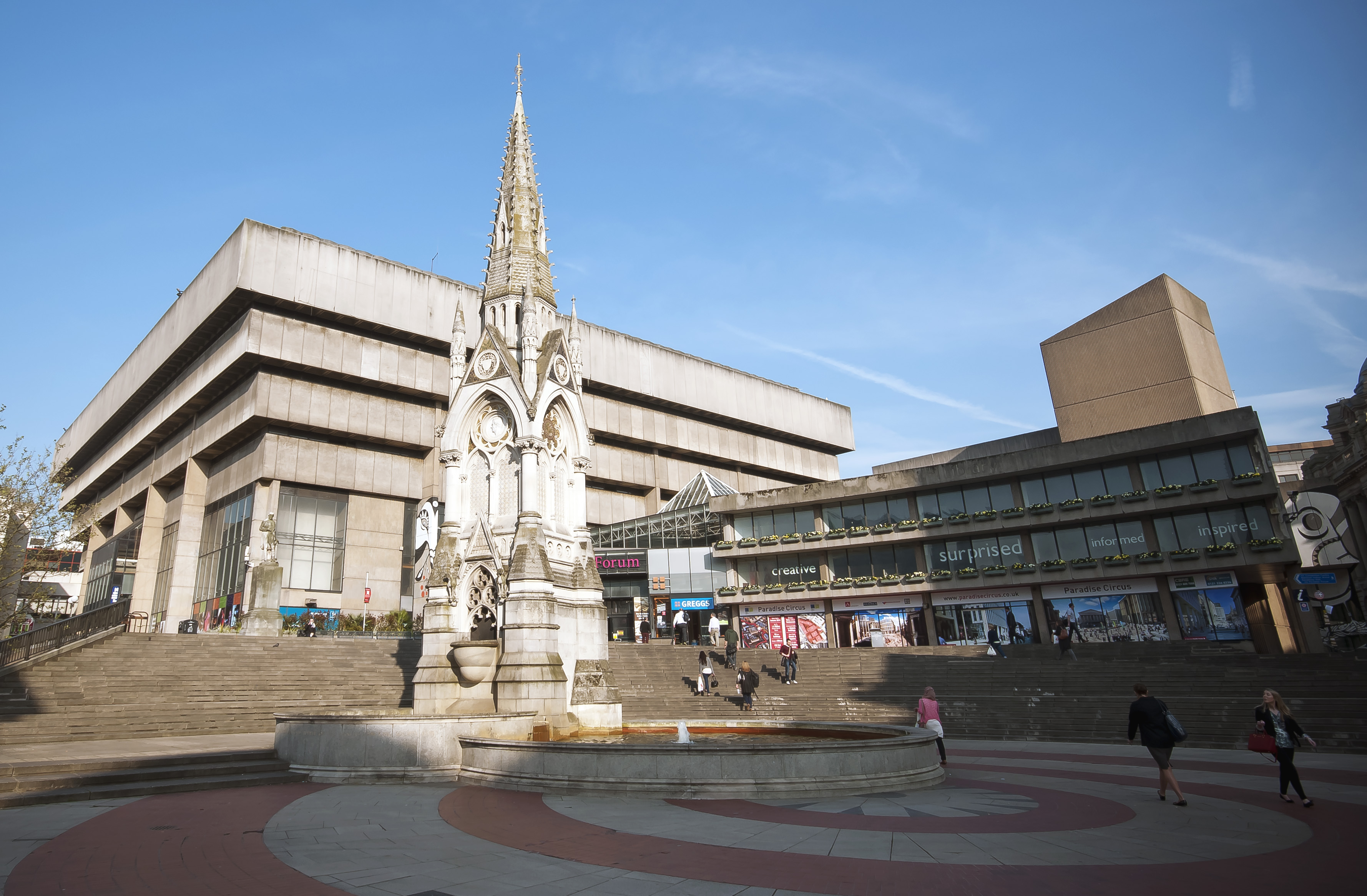 Chamberlain Square Birmingham, Photographed in 2014 with Birmingham Central Library behind the Chamberlain Memorial.